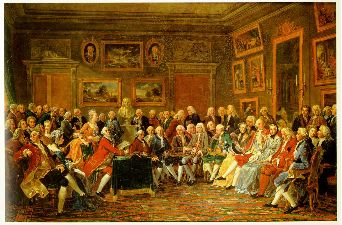 Figure 3: Anicet Charles Gabriel Lemonnier, A Reading in the Salon of Mme Geoffrin, 1755, oil on canvas, 129 x 196 cm, Châteaux de Malmaison et Bois-Préeau, Paris.